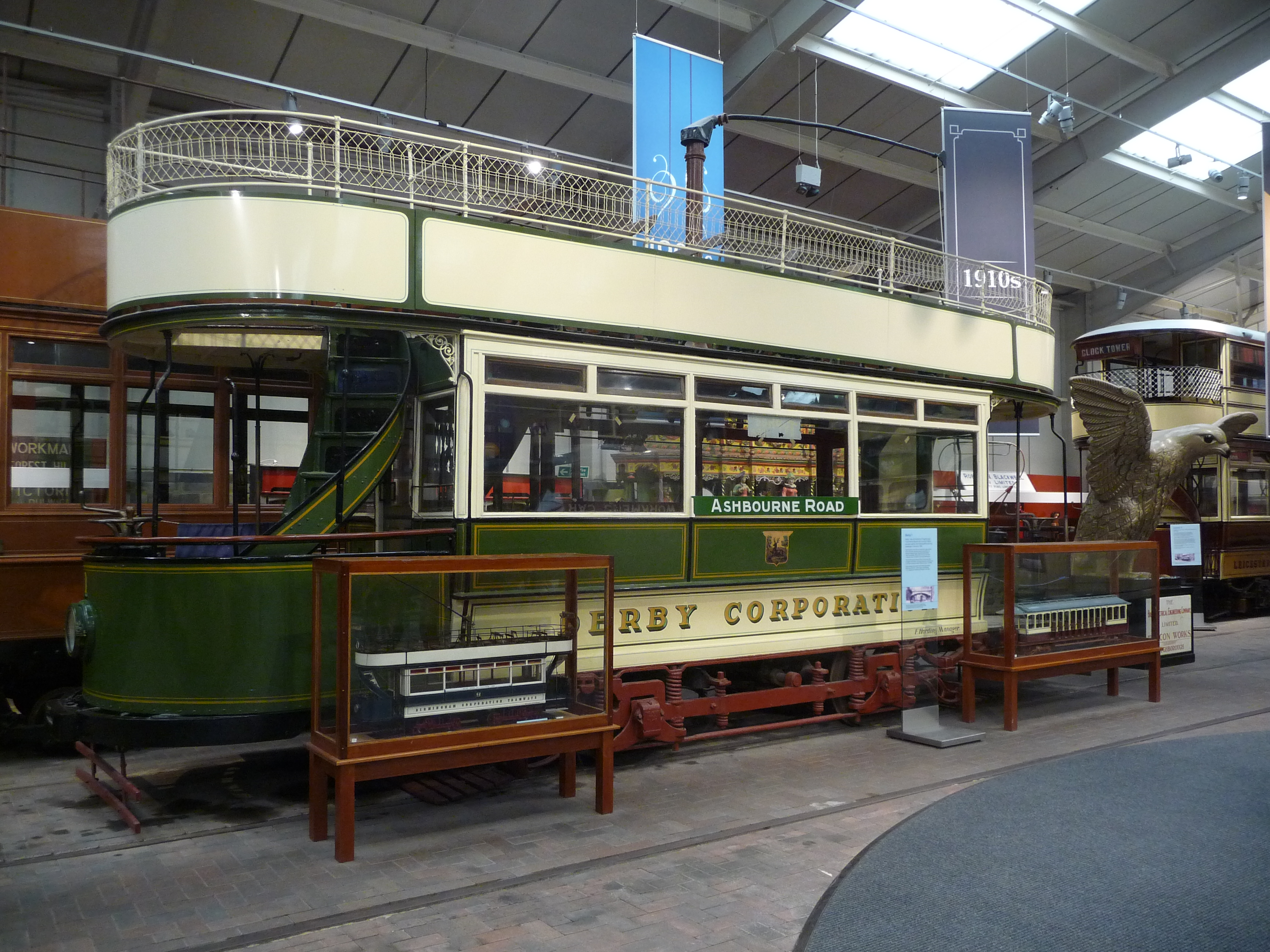 Derby Corporation Tramways 1. Built 1896. Seats 45. This tram has never run at Crich as it is to a non-standard (4 feet (1,219 mm)) gauge. It was used for crew training prior to the opening of the electrified system in Derby where it ran for 30 years.